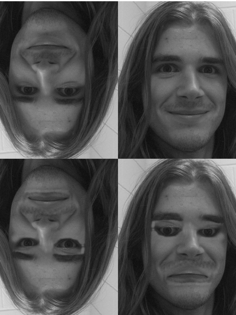 The 'Thatcher effect'. Top: normal faces. Bottom: Artificially manipulated faces. The manipulation of the face isn't noticed (much) in the upside-down version of the photo (left bottom), but is much more noticable in the upright version (right bottom).